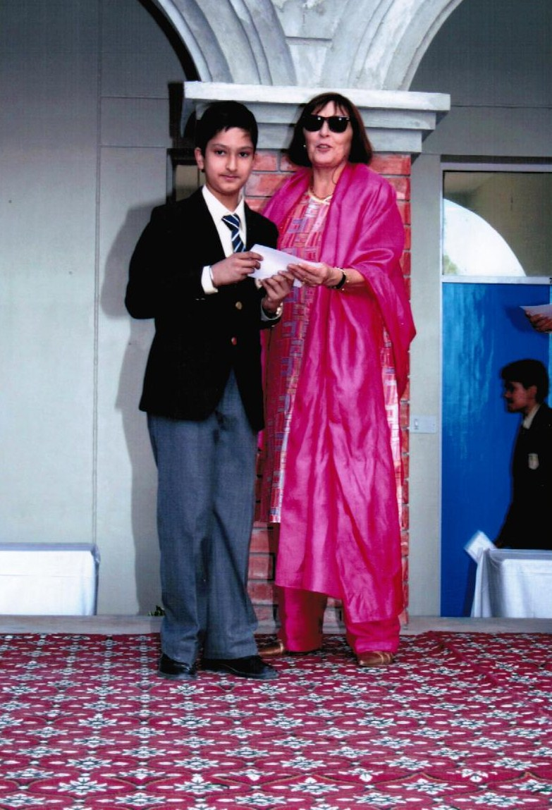 This picture shows me, Shivanshu Goyal getting a prize from Mrs. Rosa Alicia Kucharskyj, the principal of The British Co-Ed High School.